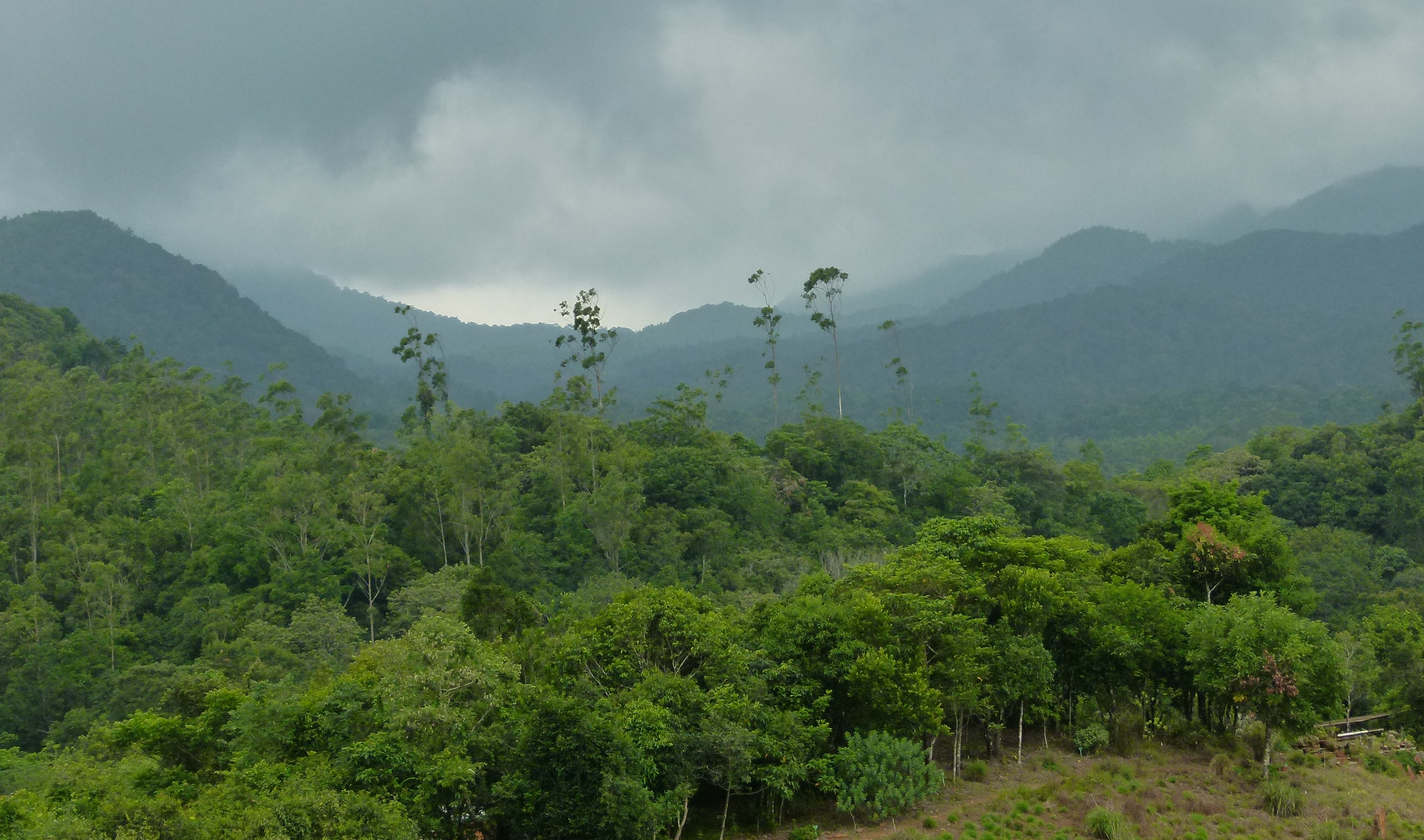 Monsoon clouds, Wynaad. India